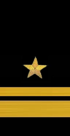 Rank of the Workers' and Peasants' Red Army Navy, rank insignia (1935-1940), sleeve insignia «Flag officer 2nd class» (comparable to NATO OF-6).